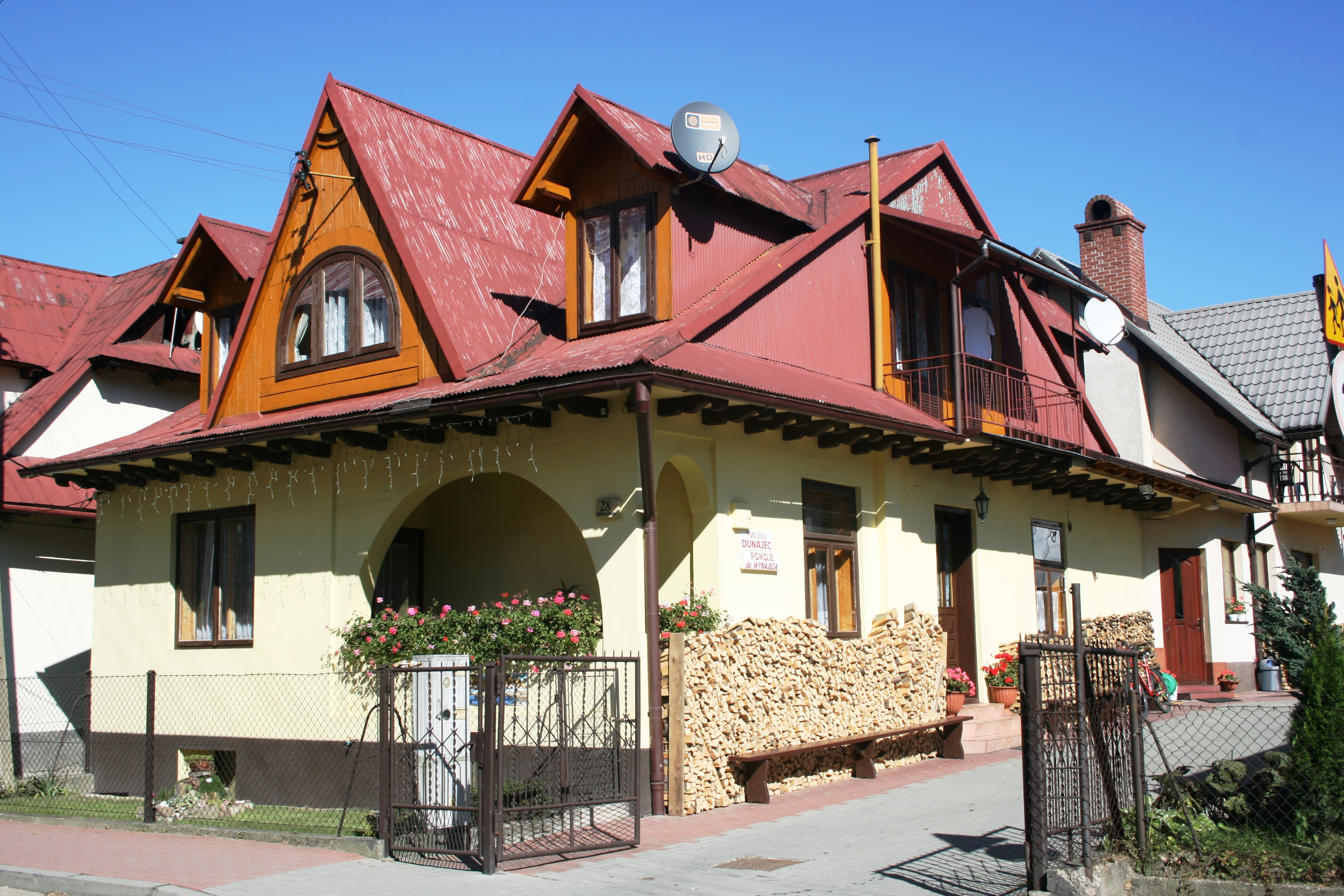 Historic monument in Krościenko nad Dunajcem – 28 Zdrojowa Street